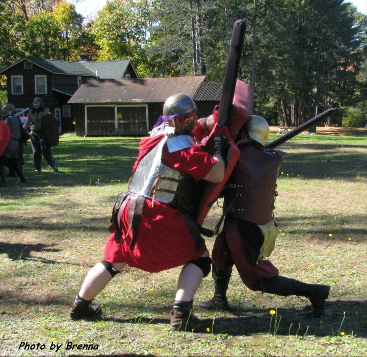 This is a picture from the Dagorhir event A Clash of Kings showing Sir Robert Valcore and a Roman in a high impact shield rush. The impact of a full Dagorhir shield rush is akin to that of an NFL football player in a block